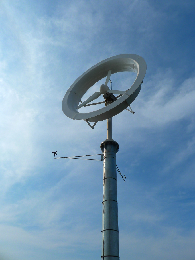 A 3kW wind-lens turbine installed near Fukuoka Bay in Japan